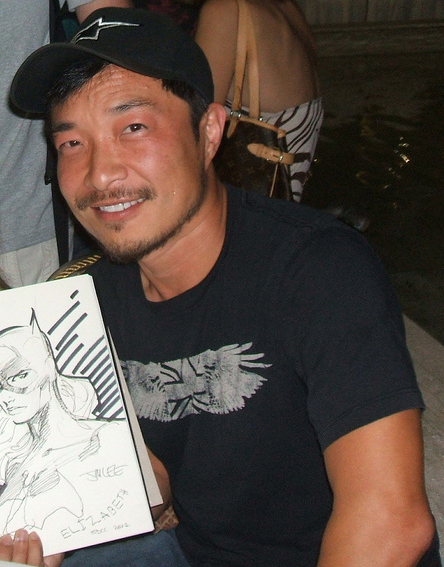 Jim Lee at the CBLDF Drink and Draw at San Diego Comic Con 2007.